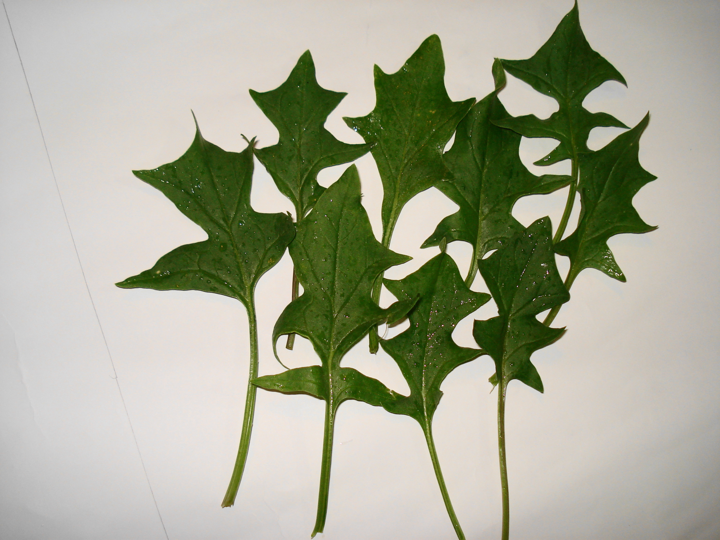 Sindhi Palak only available in sindh, different in shape and taste from ordinary palak(spinach),Sour in taste,Cooking with potatoes give slightly sour taste(Khatta Zaiqa)